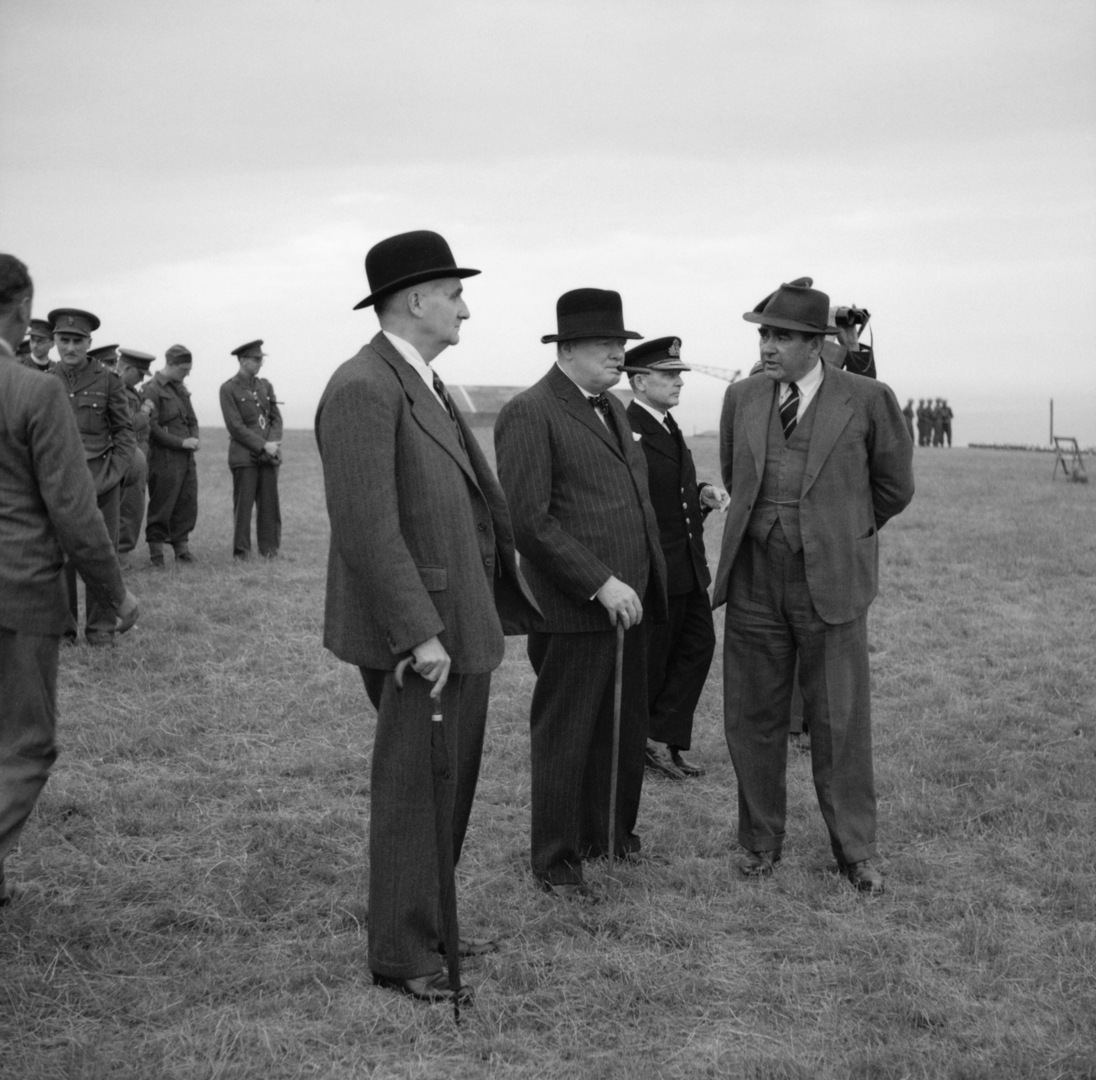 Radar and Electronic Warfare 1939-1945 Personalities: Professor F A Lindemann (later Lord Cherwell), with Winston Churchill and Dr D A Crow (Chief Superintendent Projectile Development, Ministry of Supply), with Vice Admiral Tom Phillips VCNS in the background, watching a demonstration of a secret anti-aircraft device at an experimental establishment at Holt, Norfolk.